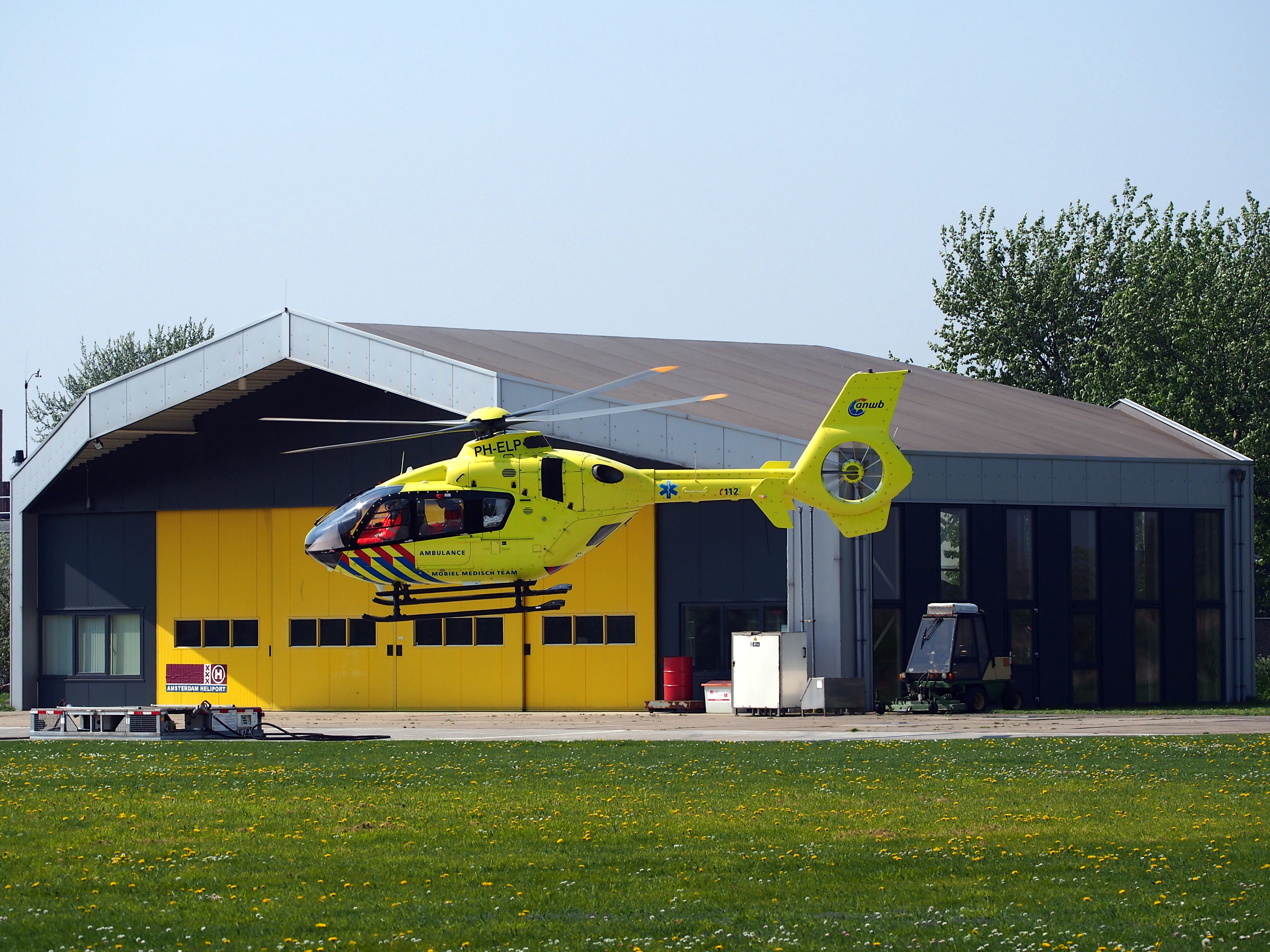 Photographed at Port of Amsterdam in The Netherlands.